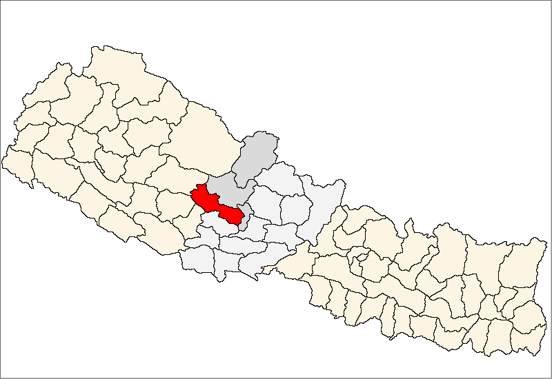 FrenchCarte de localisation dudistrict de Baglung(wp-FR),au Népal (wp-FR).EnglishLocation map ofBaglung District(wp-EN),in Nepal (wp-EN).